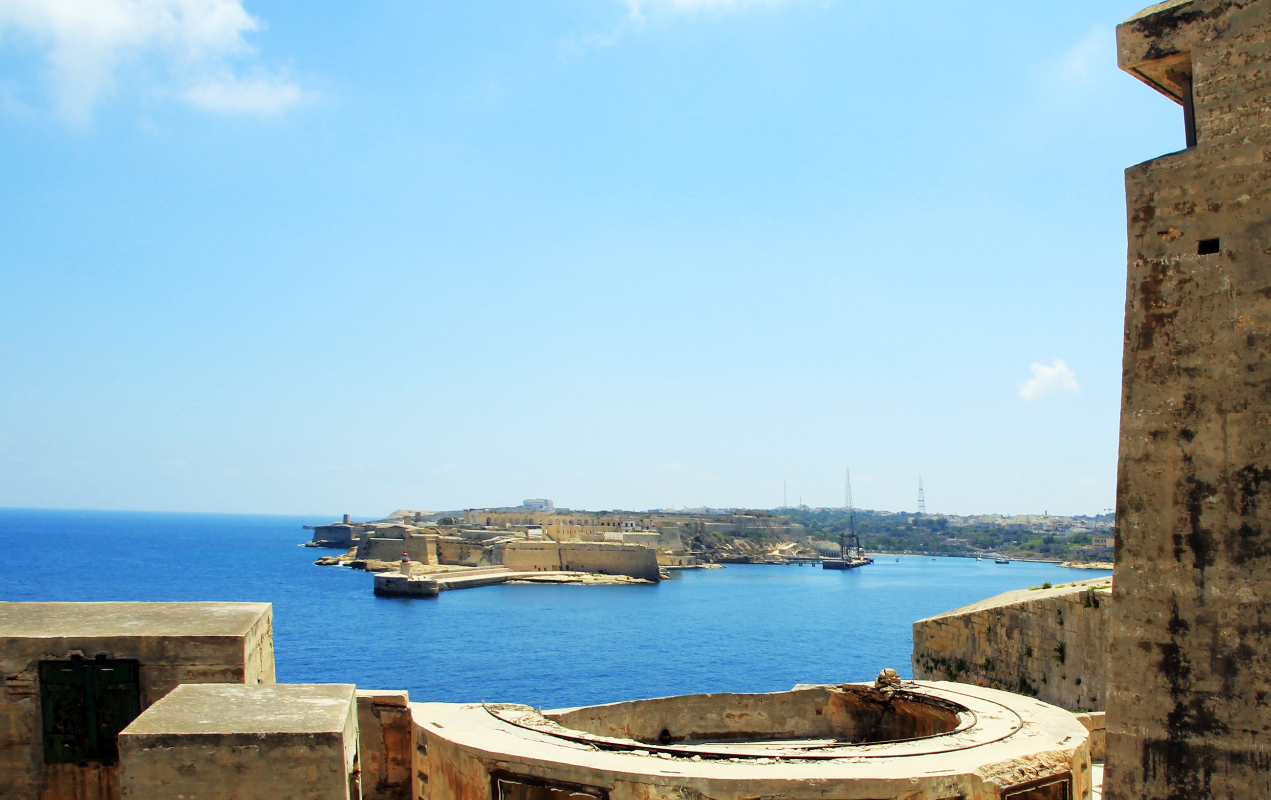 View from the fortification of city Valletta to the Ricasoli Breakwater built in the entrance into the port, Malta